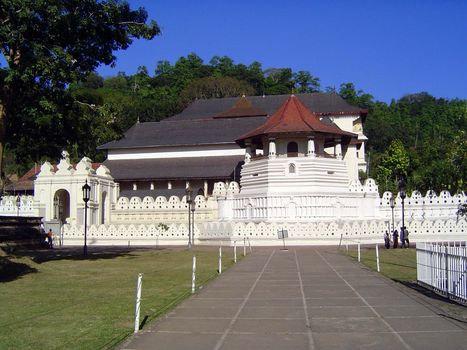 Kandy, Sri Lanka. The temple of the tooth, which contain the tooth relic. The relic contains the tooth of the buddha (Note: the uploader of this image stated on his talk page, and on mine, that he took this picture himself. Therefore, he owns the copyright, and, therefore, he released it under the GFDL when he uploaded it. - Nat Krause 12:06, 16 May 2005 (UTC)